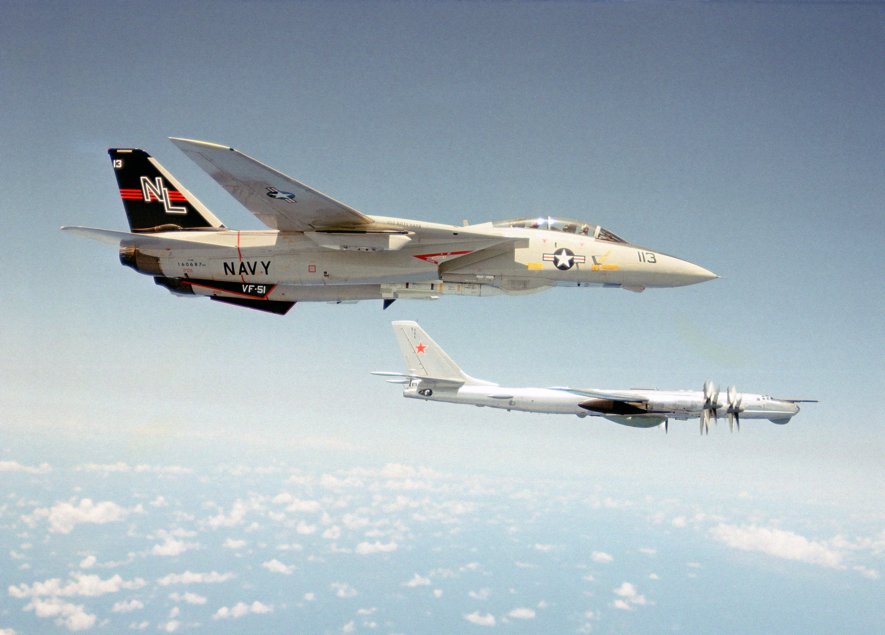 A U.S. Navy Grumman F-14A-100-GR Tomcat aircraft (BuNo 160687) from Fighter Squadron 51 (VF-51) as it intercepts a Soviet Naval Aviation Tu-95RTs "Bear D".